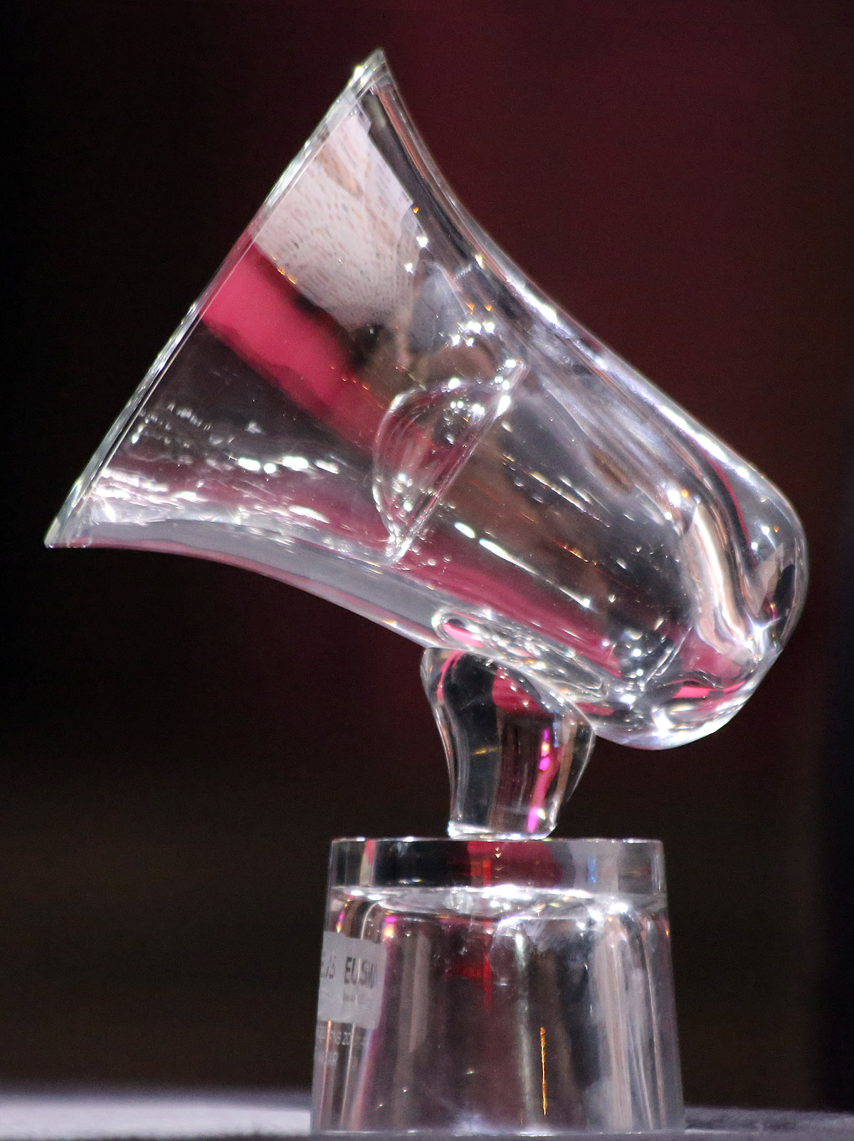 Nazar's trophy at the Amadeus Austrian Music Award at Volkstheater in Vienna